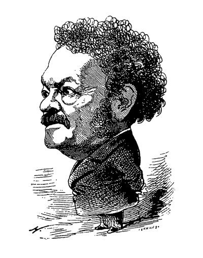 French opera singer Gilbert Duprez (1806-1898) by Georges Lafosse (1844-1880)